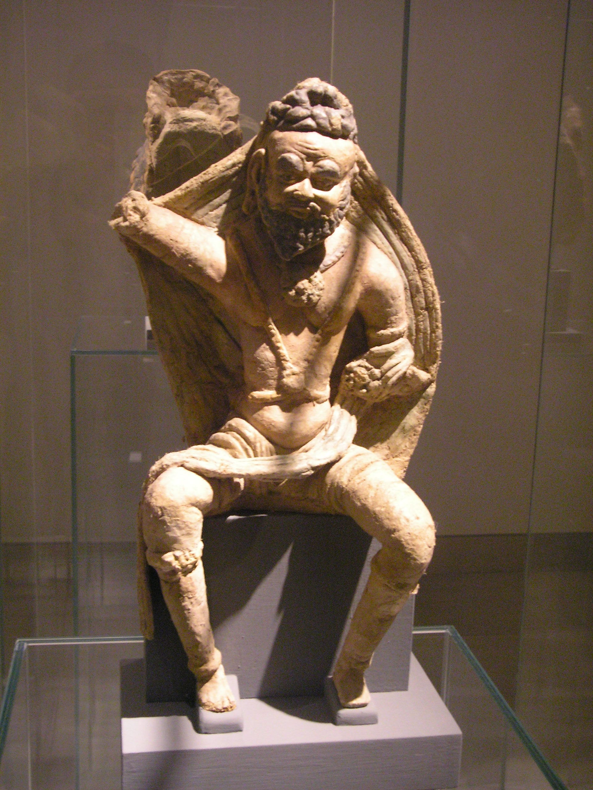 a Brahmin. Shorchuk, Kirin cave, 8th century CE (?). painted clay. Height 42.4 cm. Located in the Museum für Indische Kunst, Berlin-Dahlem.